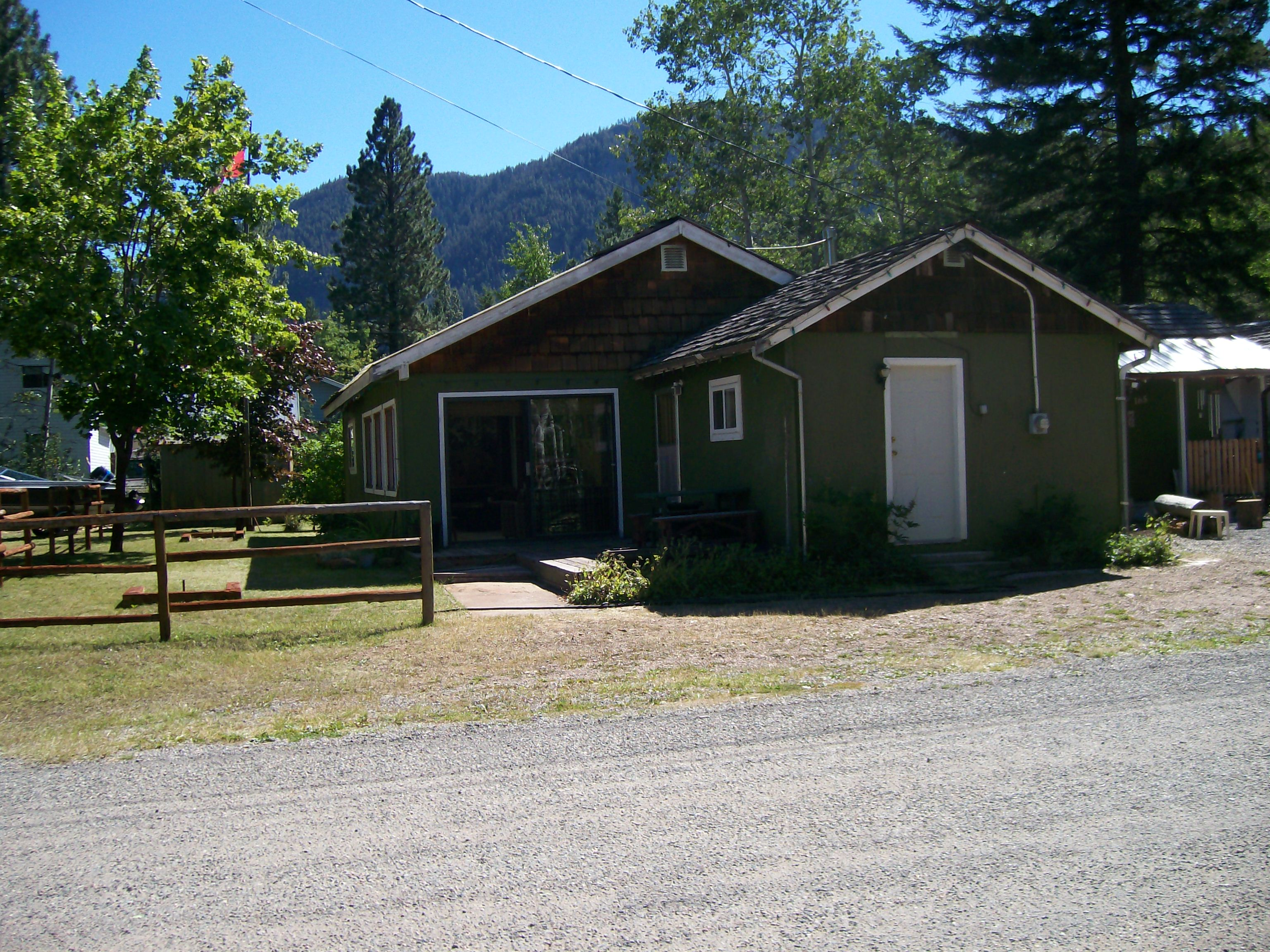 Gregg's House